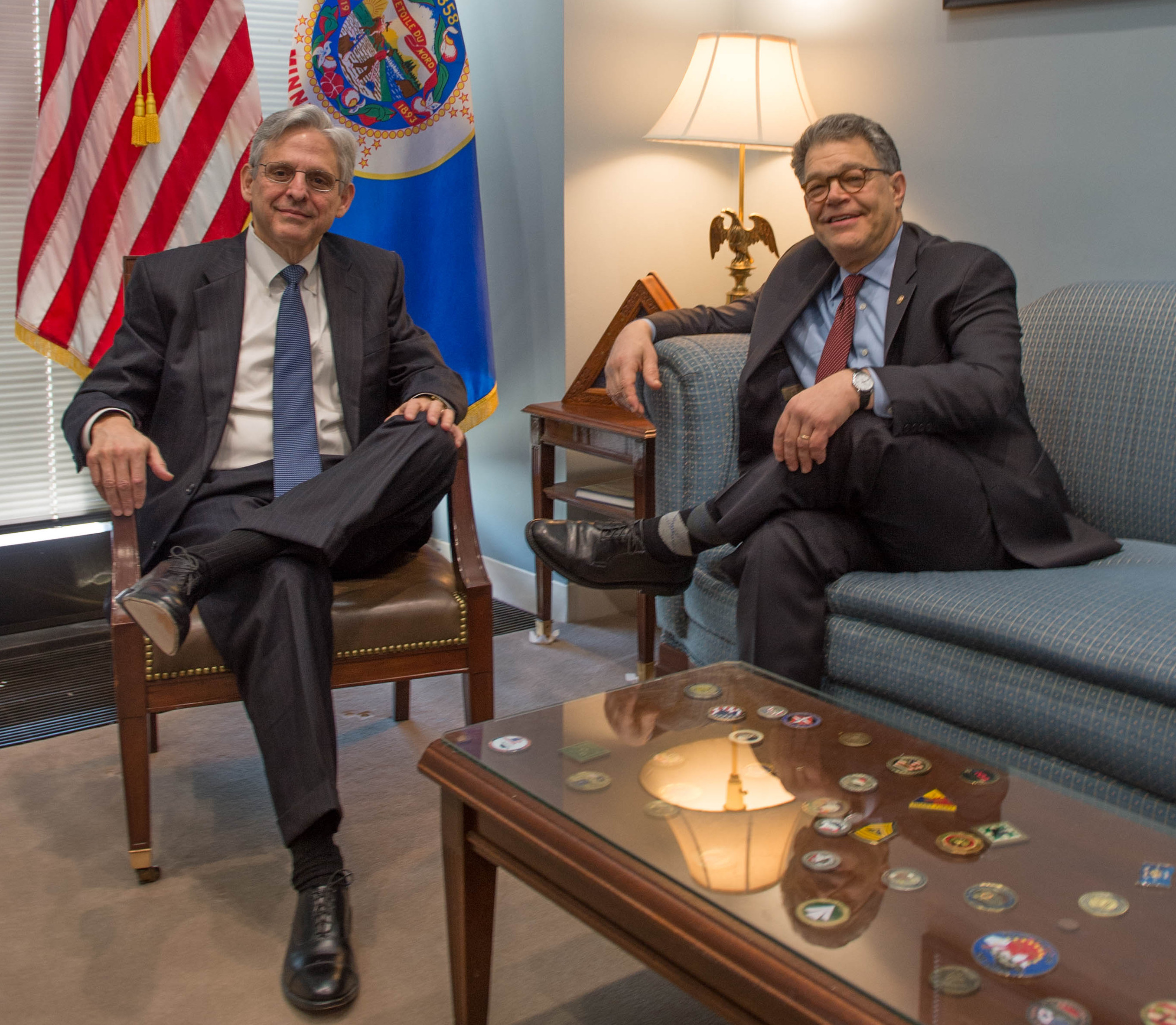 US Senator Al Franken meets with Supreme Court nominee Merrick Garland.